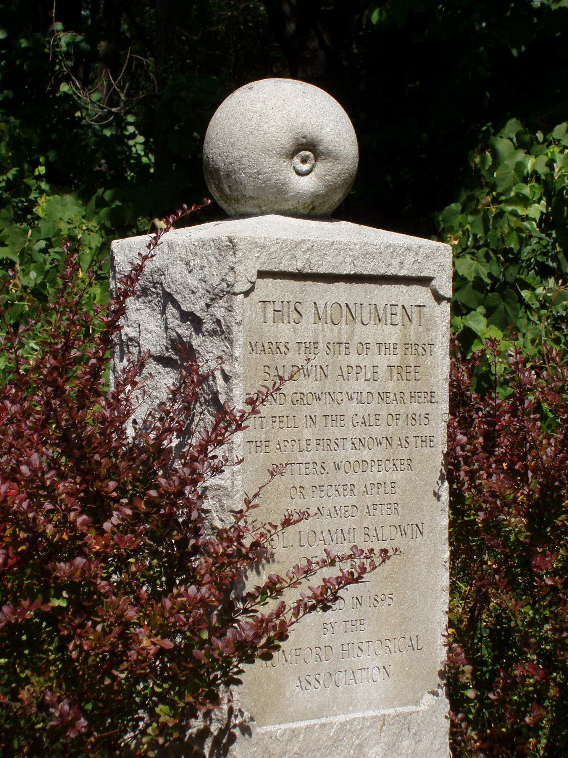 Baldwin apple monument. Picture by Daderot from Wikipedia (en).